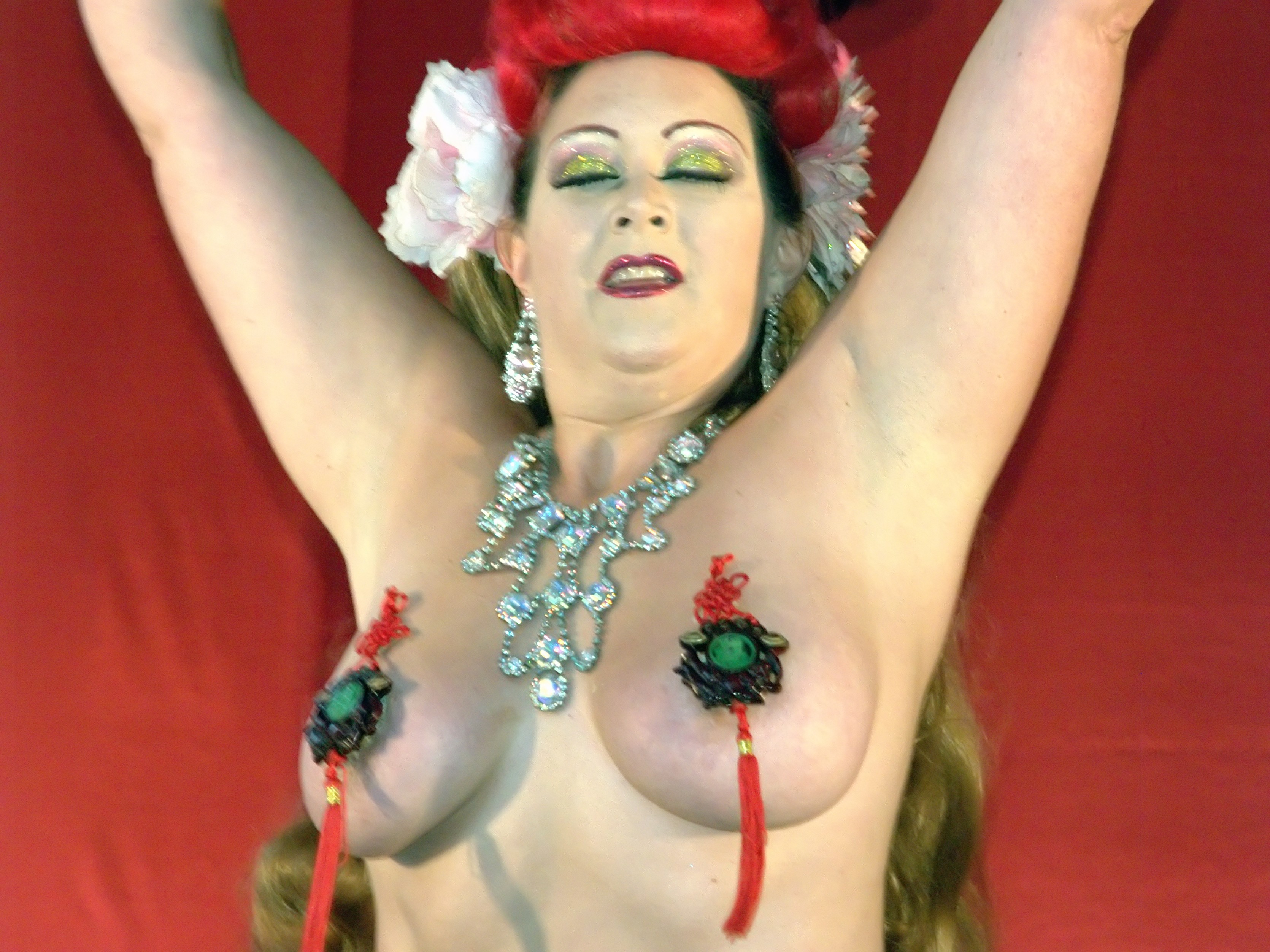 Burlesque star Miss Dirty Martini at the 2009 HOWL! Festival in New York City's East Village. Photographer's blog post about the photo and event.